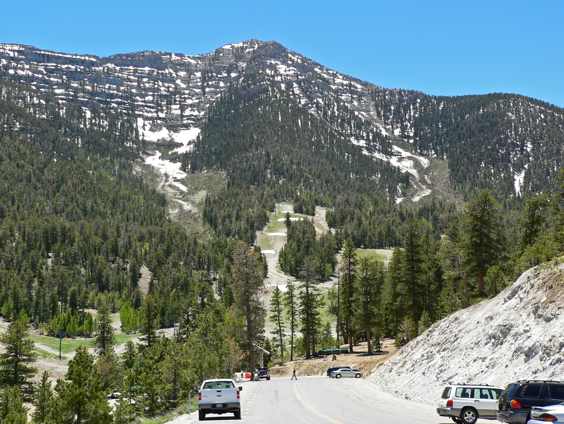 Road end in Lee Canyon, Spring Mountains, southern Nevada